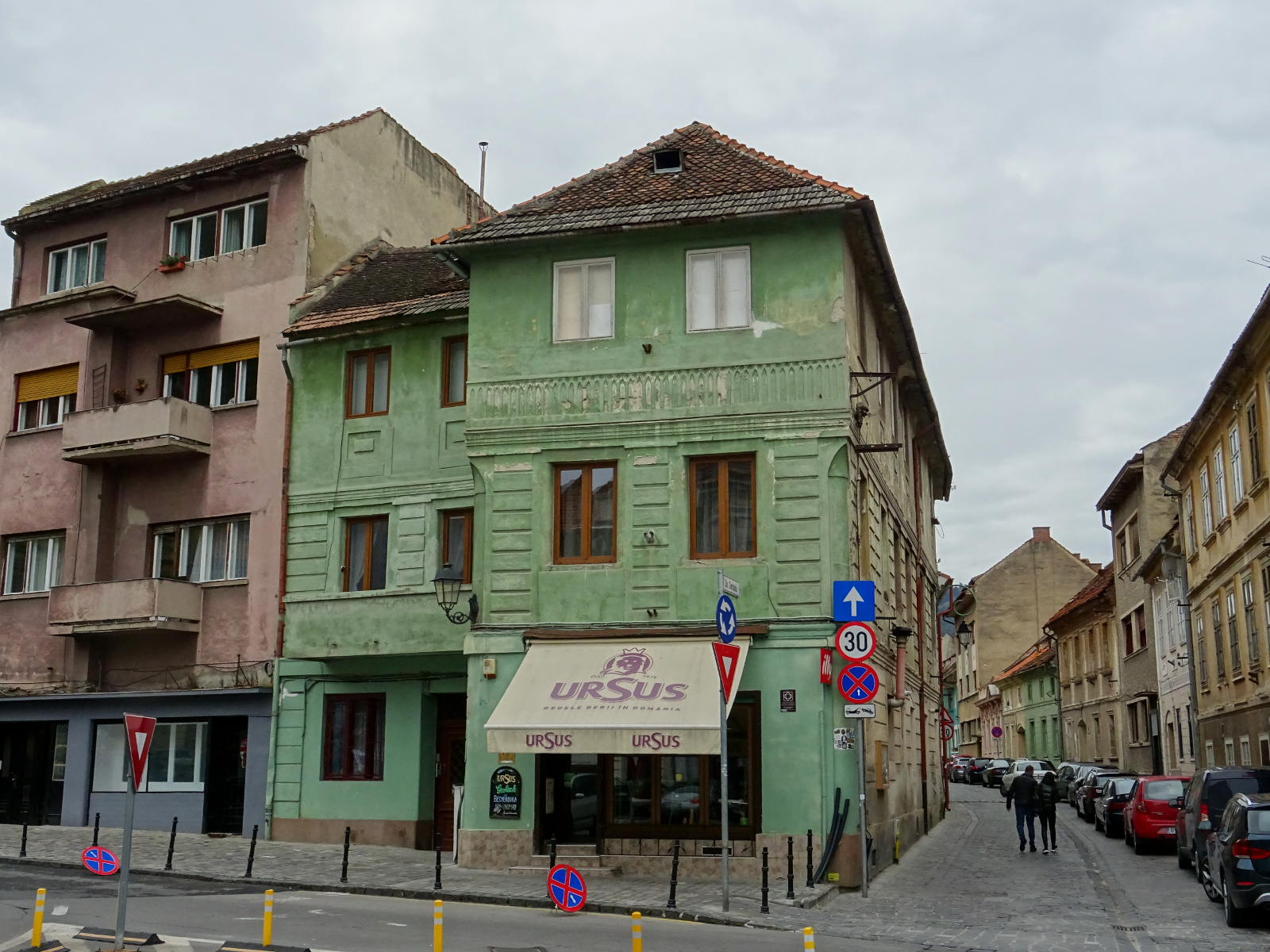 Apollonia Hirscher street, Brasov; house number 18